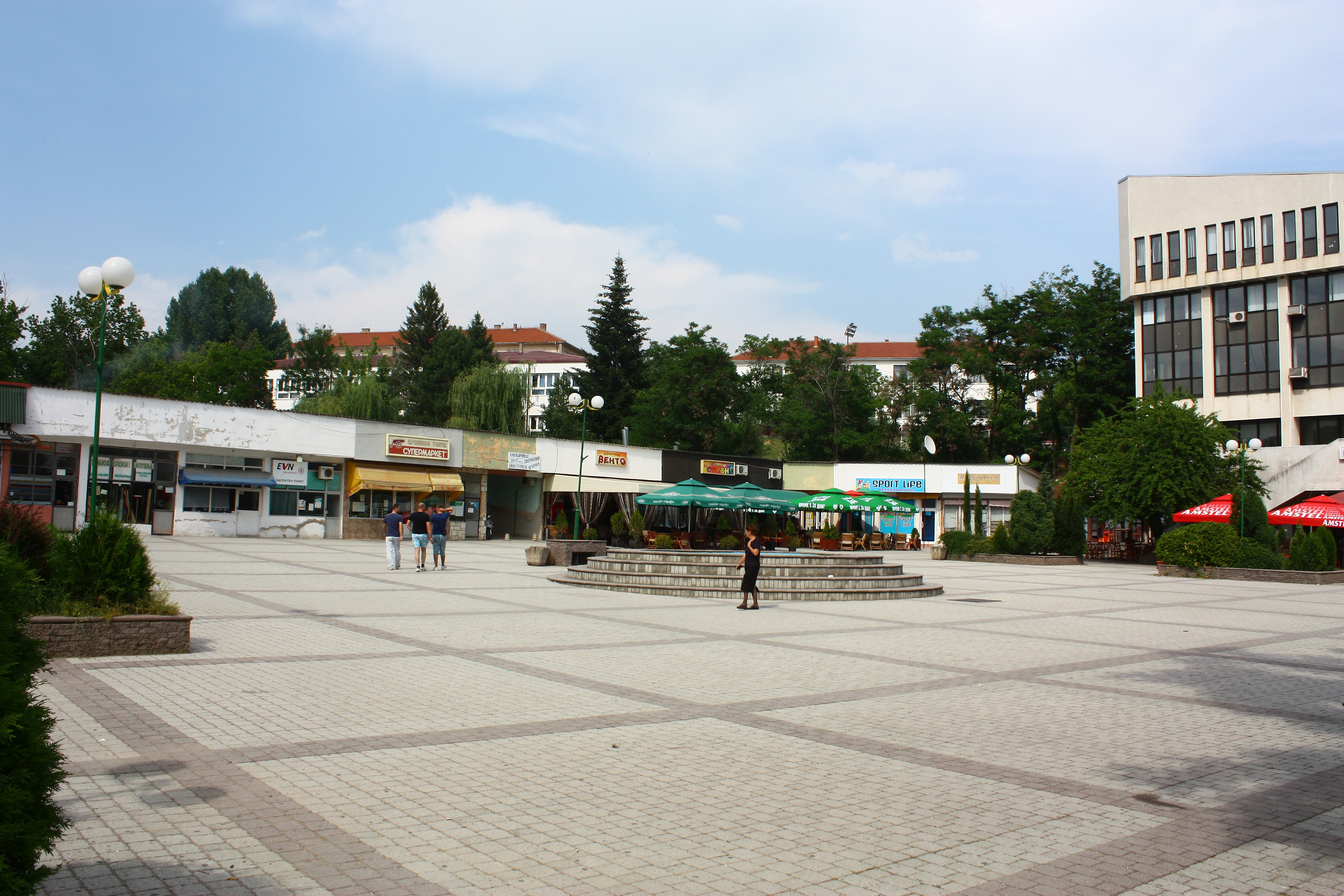 Probištip, Macеdonia.